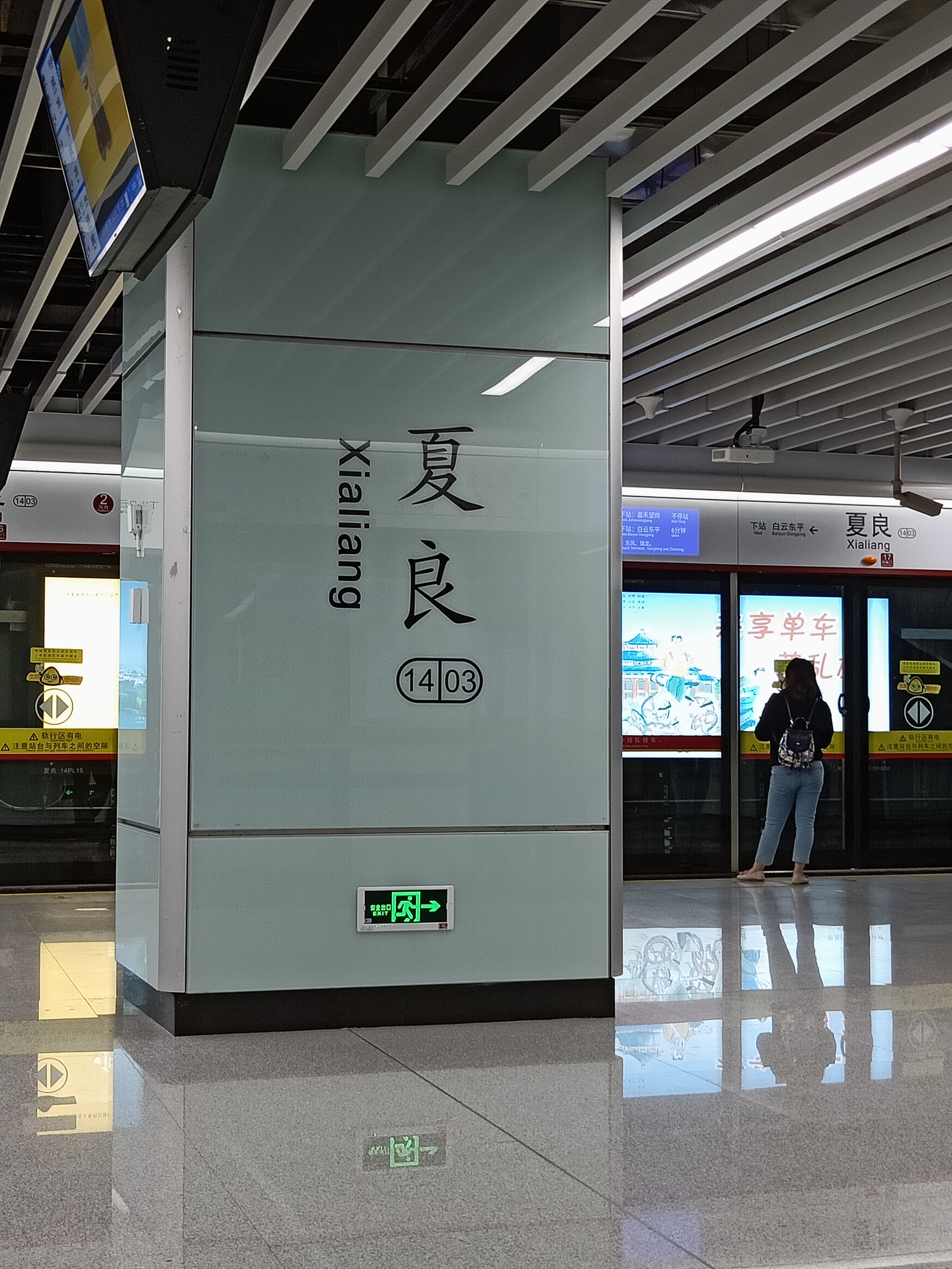 WORD on PILLAR for Xialiang Station, Guangzhou Metro.